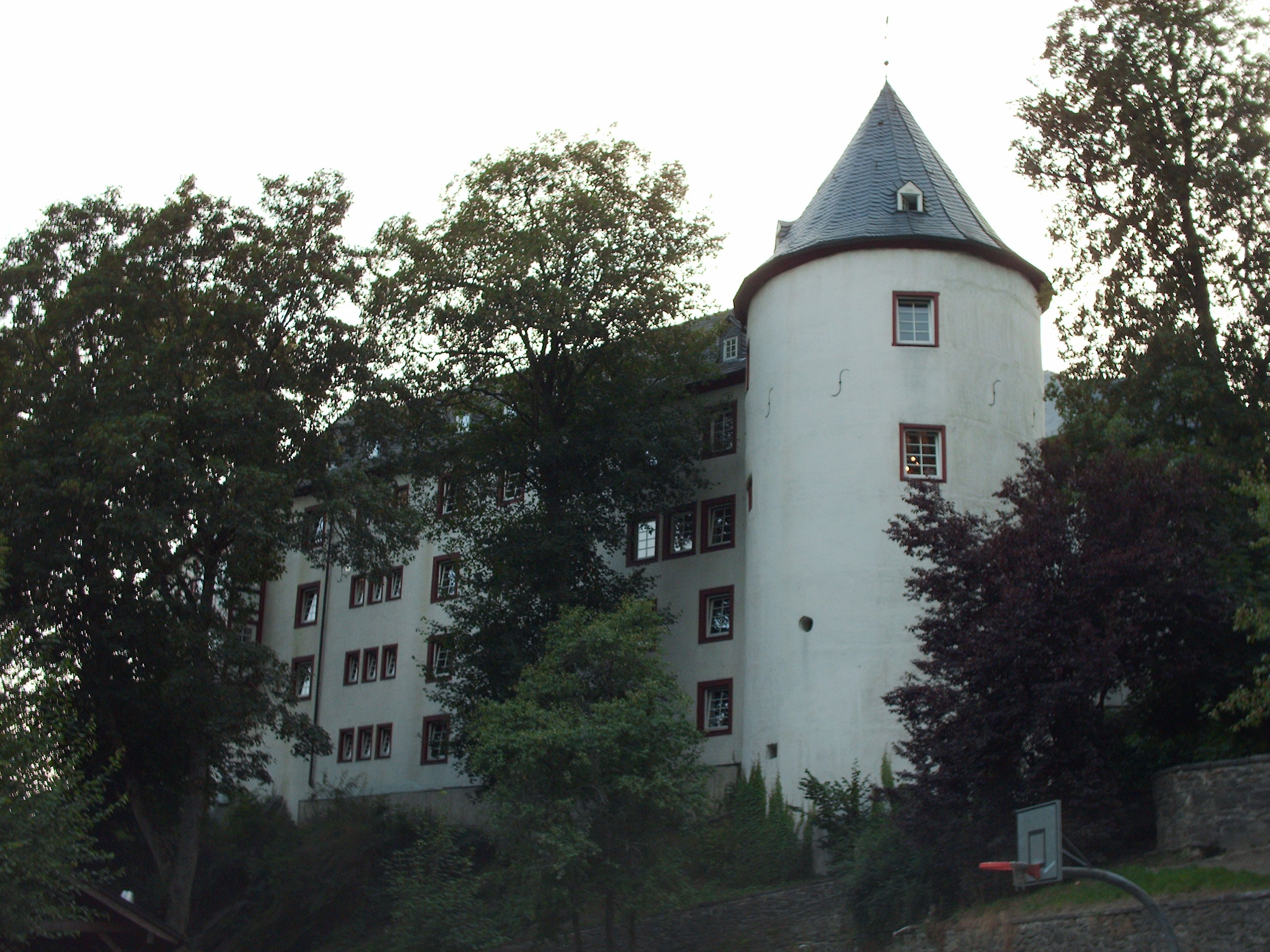 Bilstein Castle, Lennestadt, Germany check usage